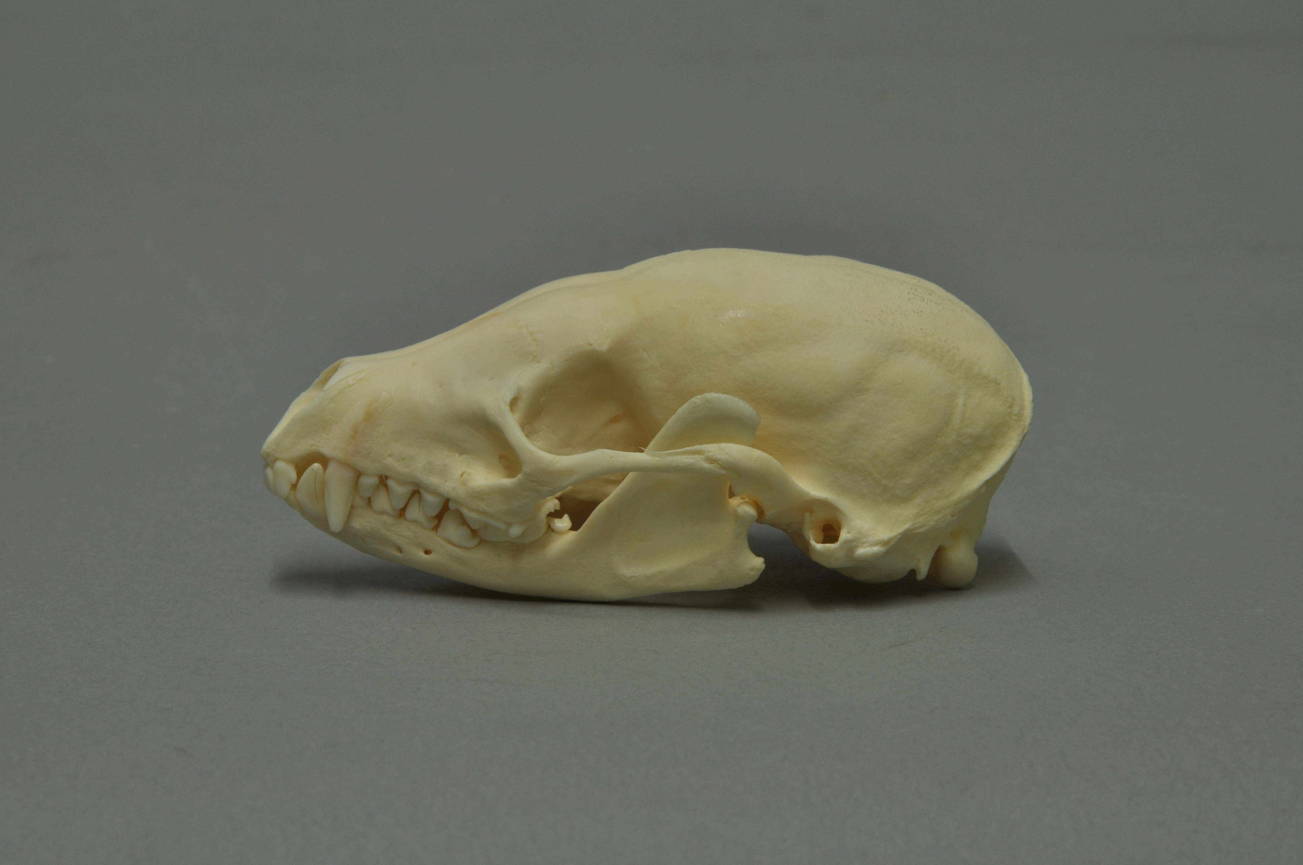 Chinese ferret-badger Melogale moschata , skull, Coll. Museum Wiesbaden